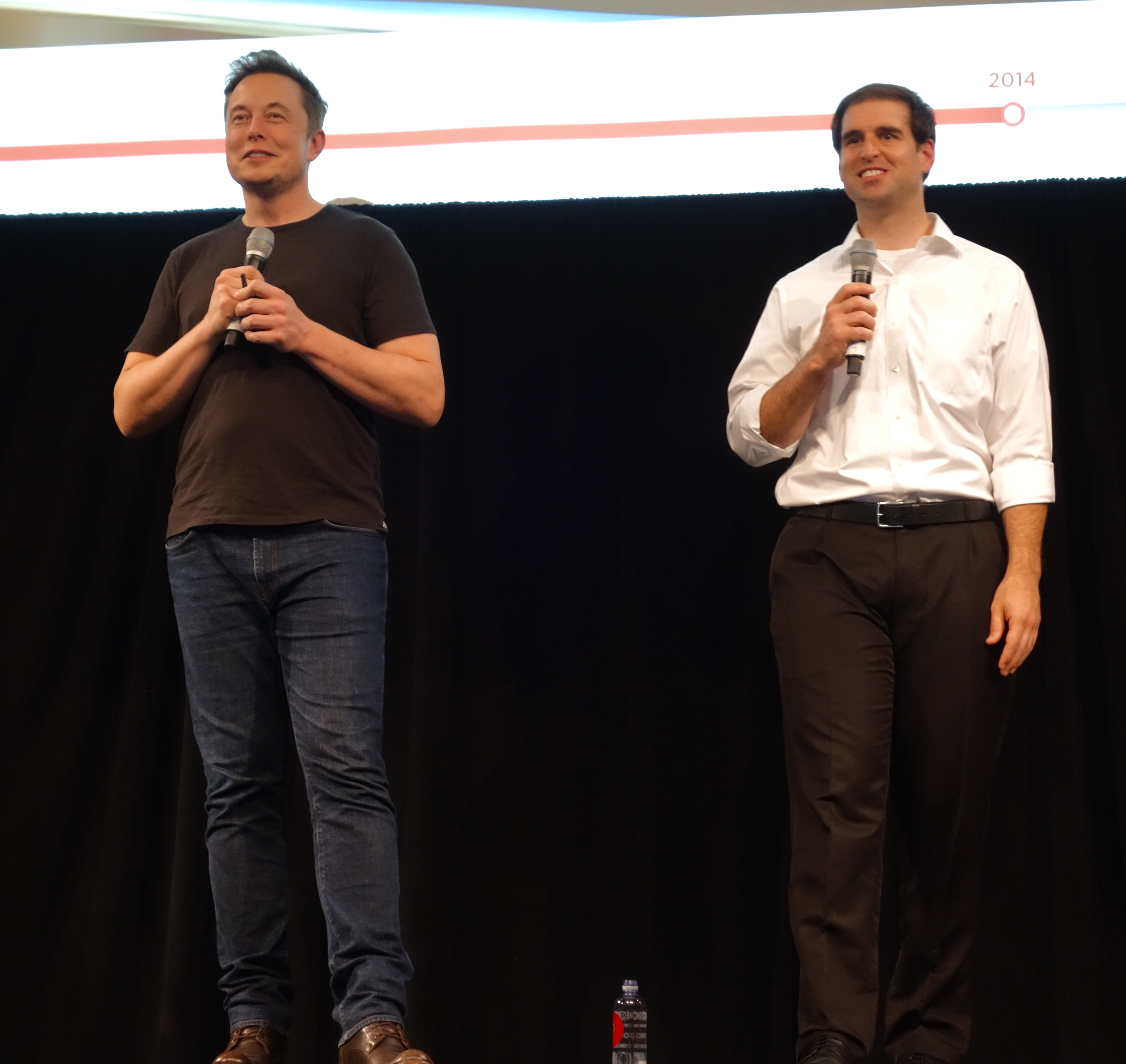 Fromt the 2016 Tesla Annual Shareholders' Meeting